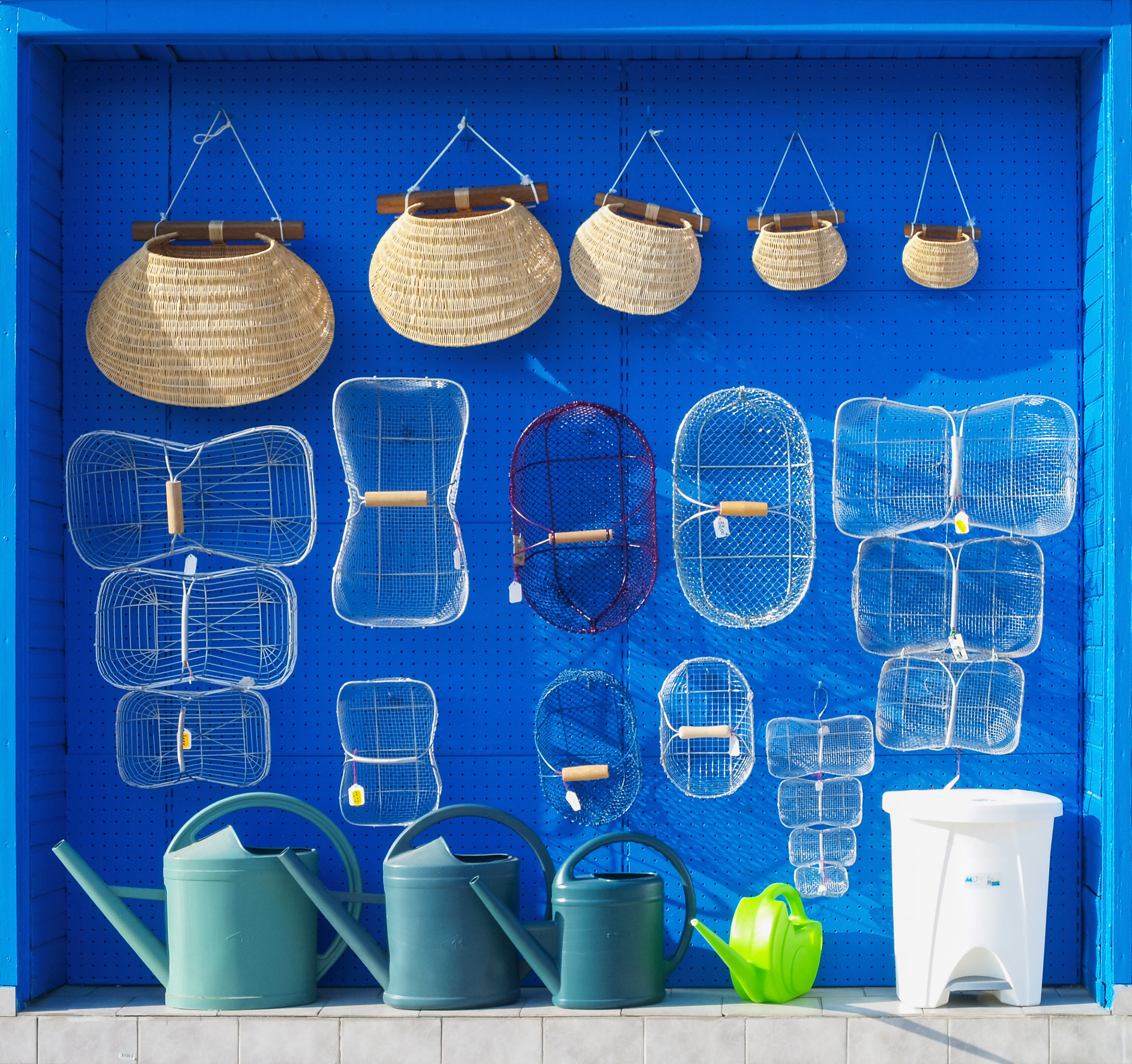 Wicker fishing baskets (called gourbeilles), metal fish baskets and watering cans in an ironmongers' shop front in Charente-Maritime, France.